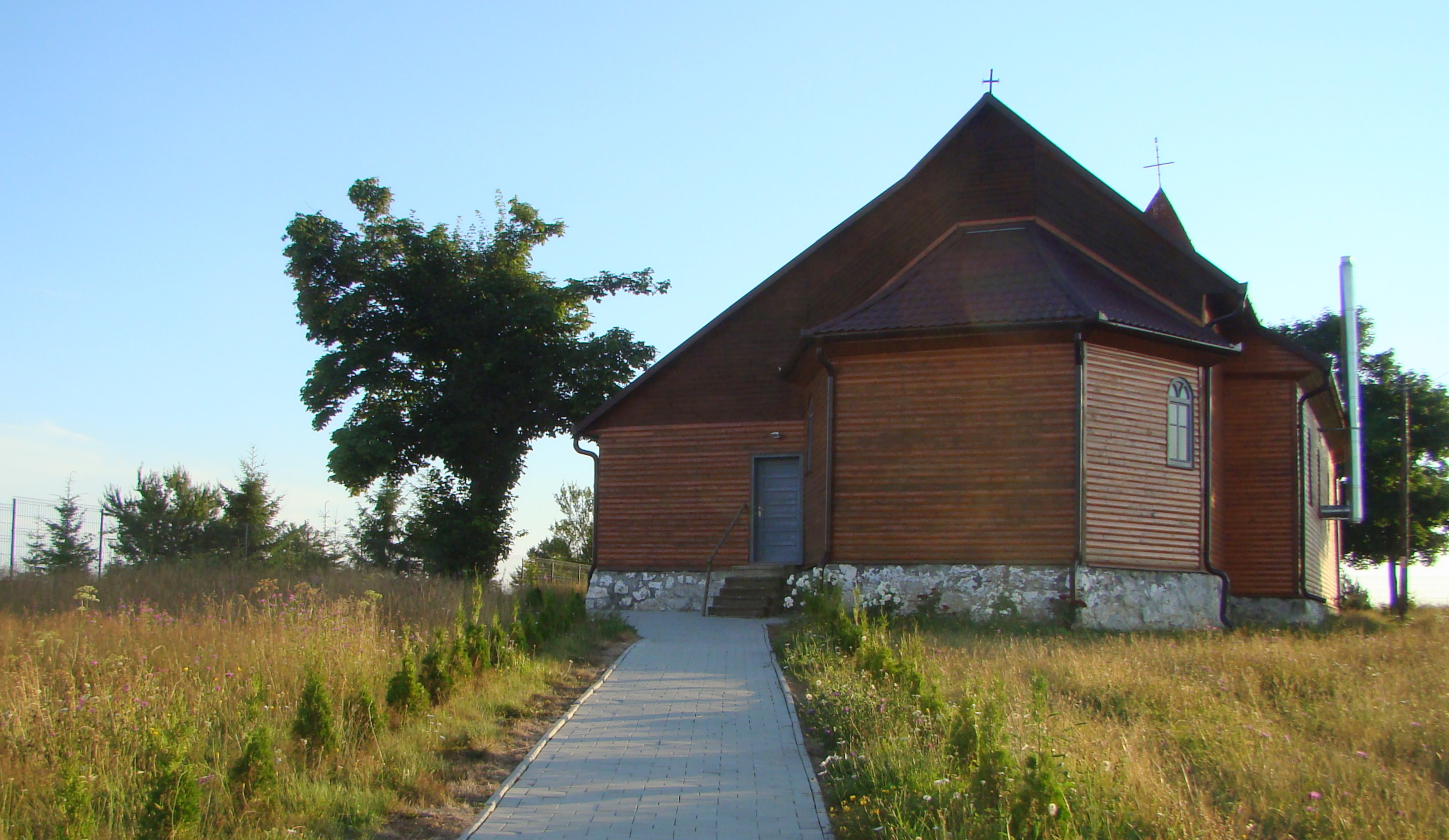 Roman Catholic church in Fântâna Brazilor, Harghita County, Romania